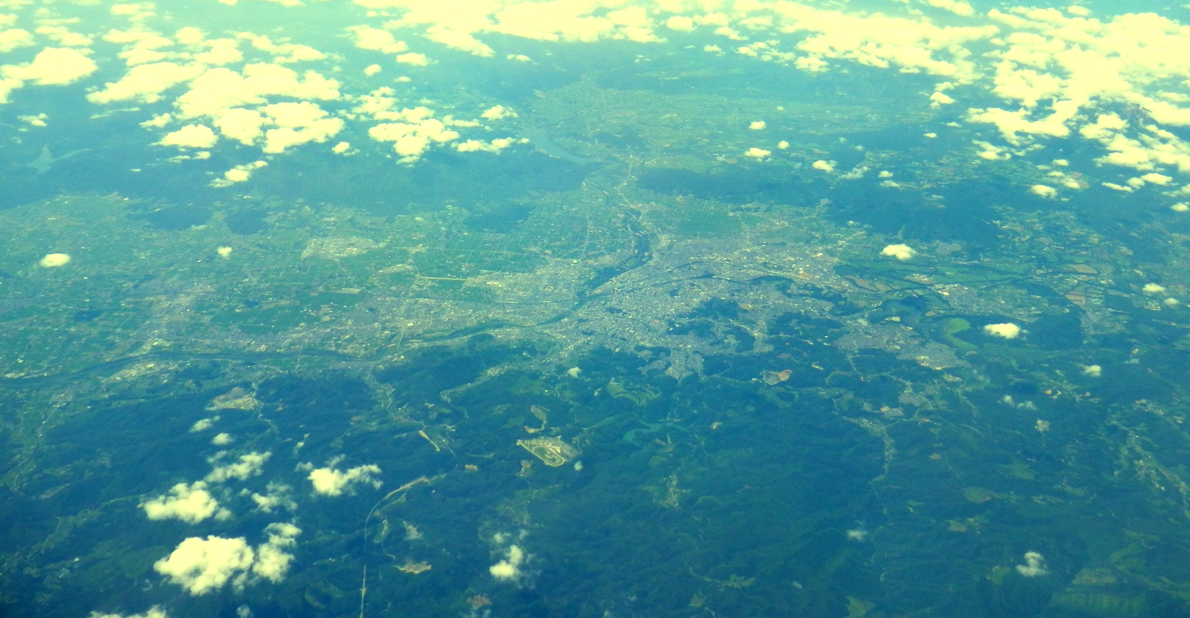 A view of Morioka-shi, Iwate from an aeroplane.